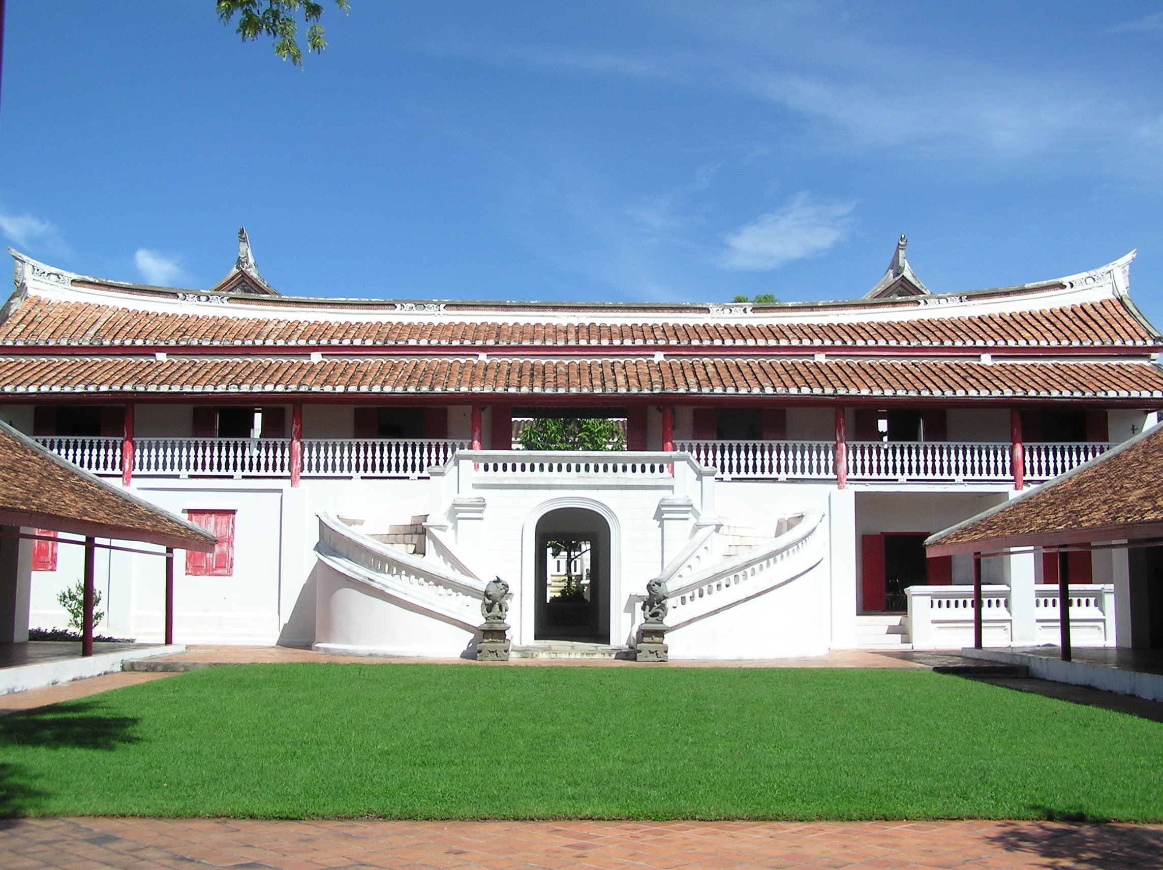 Songkhla National Museum from front, former house of Thai high-ranked officer from South China